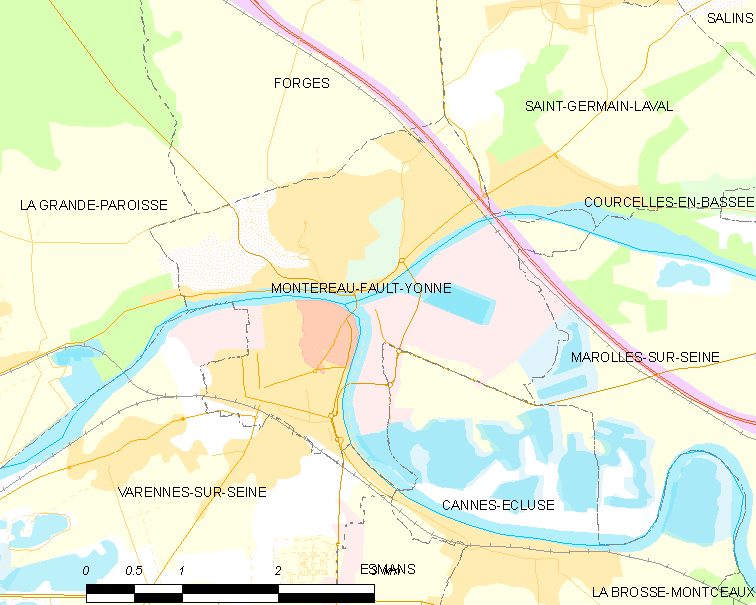 Map of French municipality Montereau-Fault-Yonne